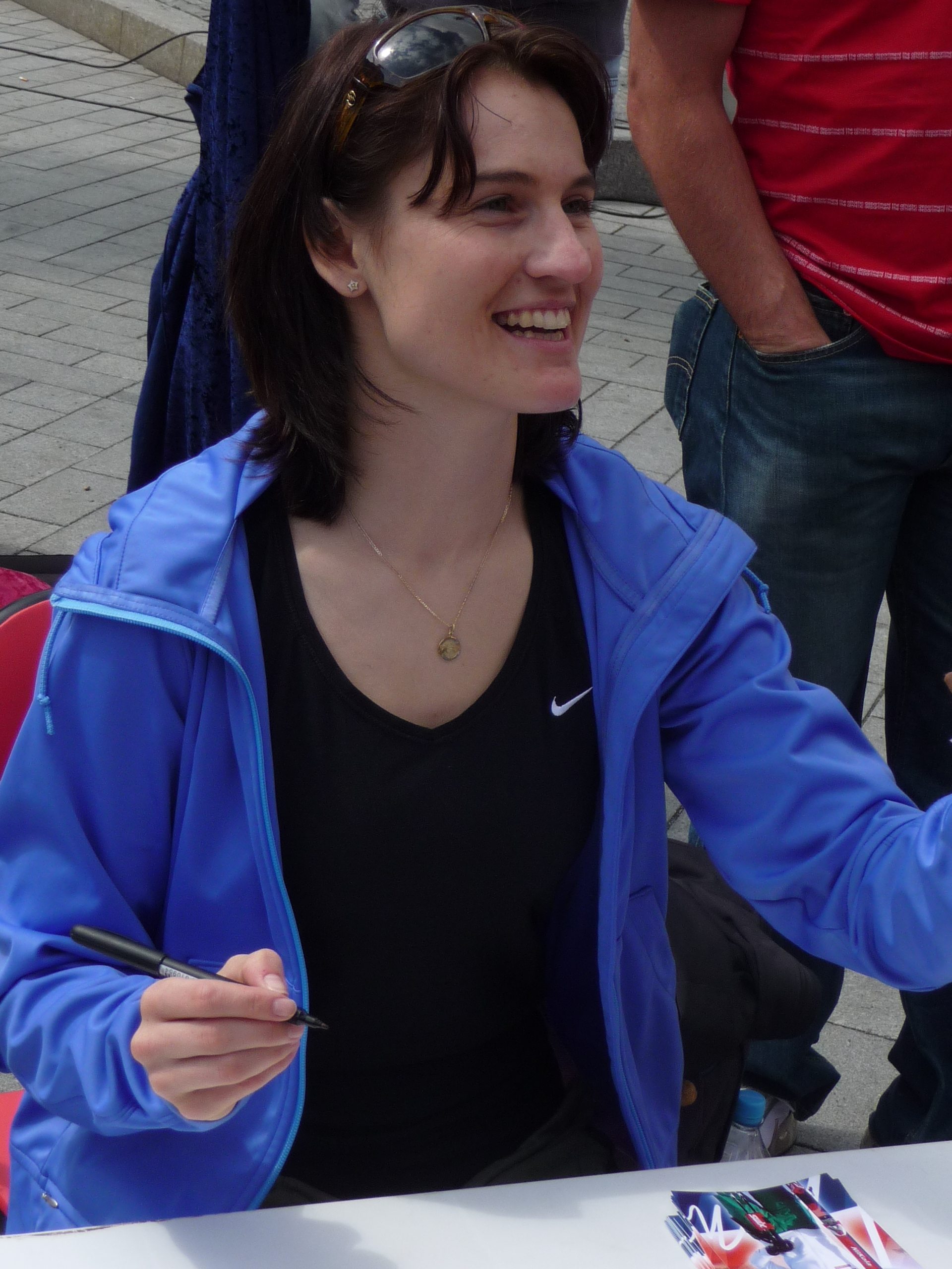 Living statues gives autographs, Brno runs 2010, Liberty Square, Brno